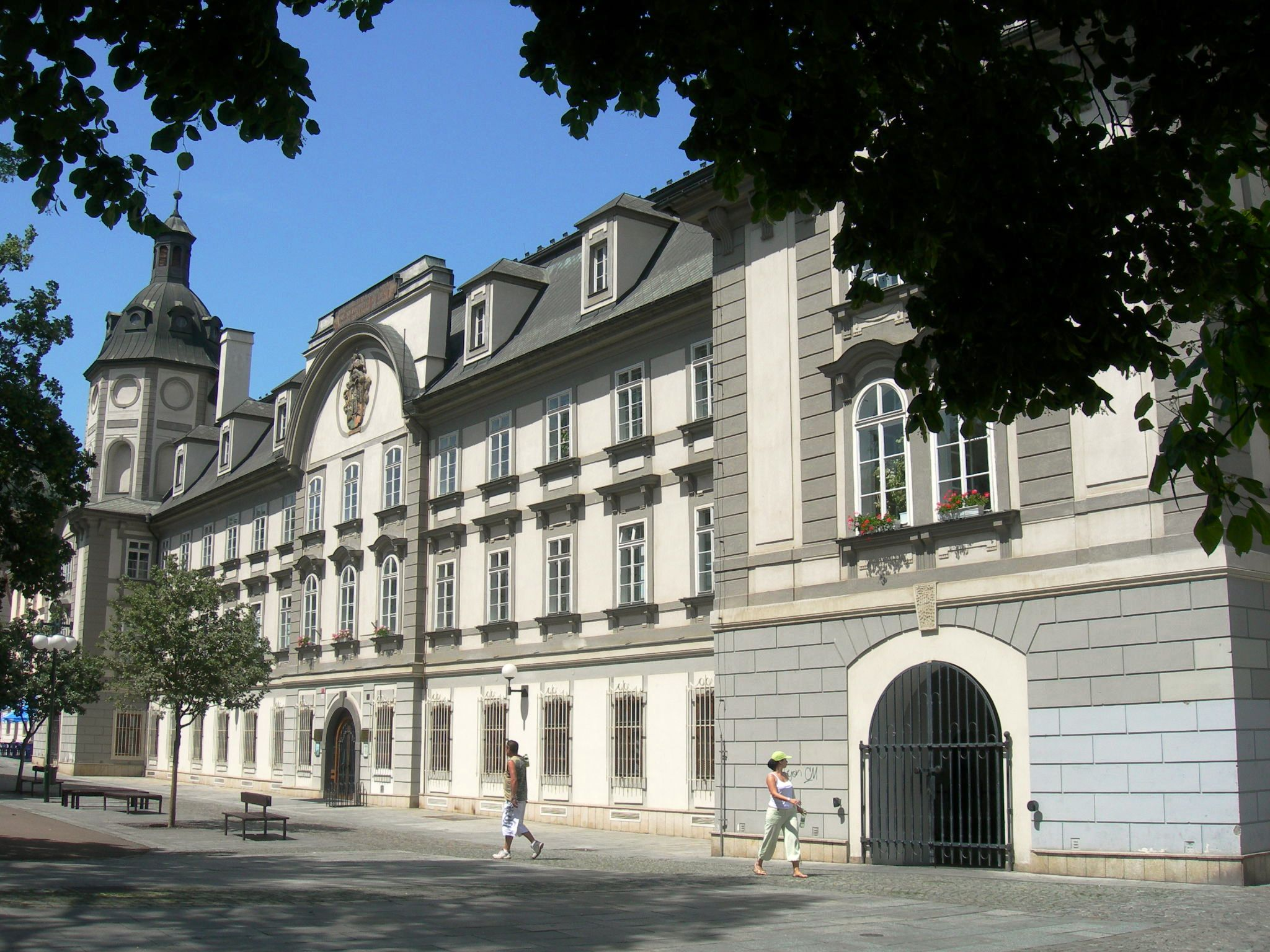 Plzeň, State Library, 1805 - 1807